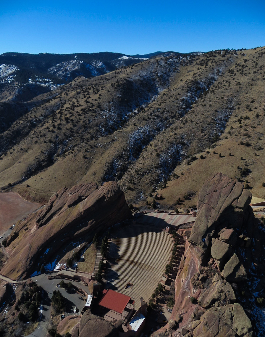 Aerial view of Red Rocks Amphitheatre, January 2013 from Falcon UAV.